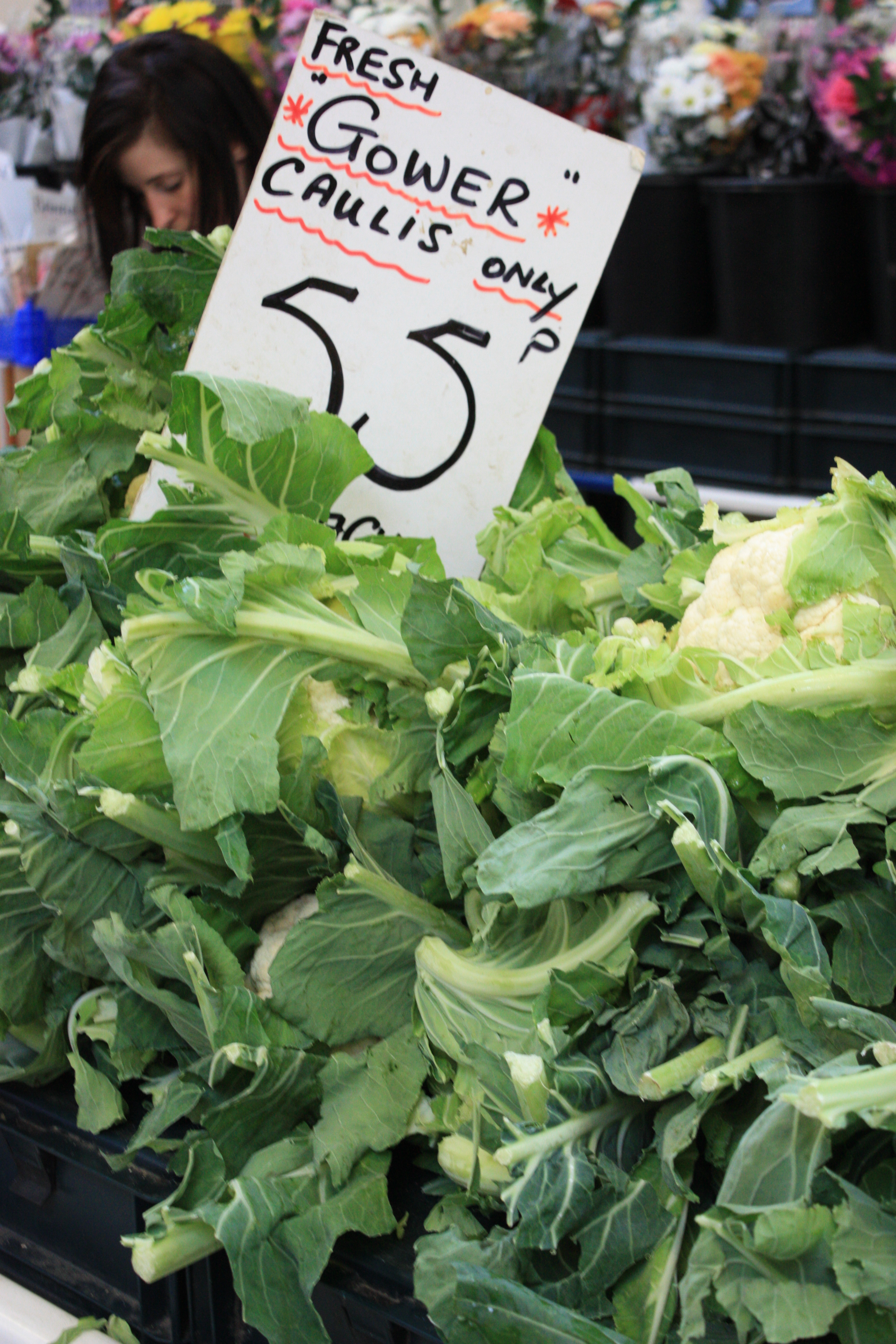 Cauliflowers cultivated in Gower for sale on a market stall in Swansea Market, Swansea, Wales